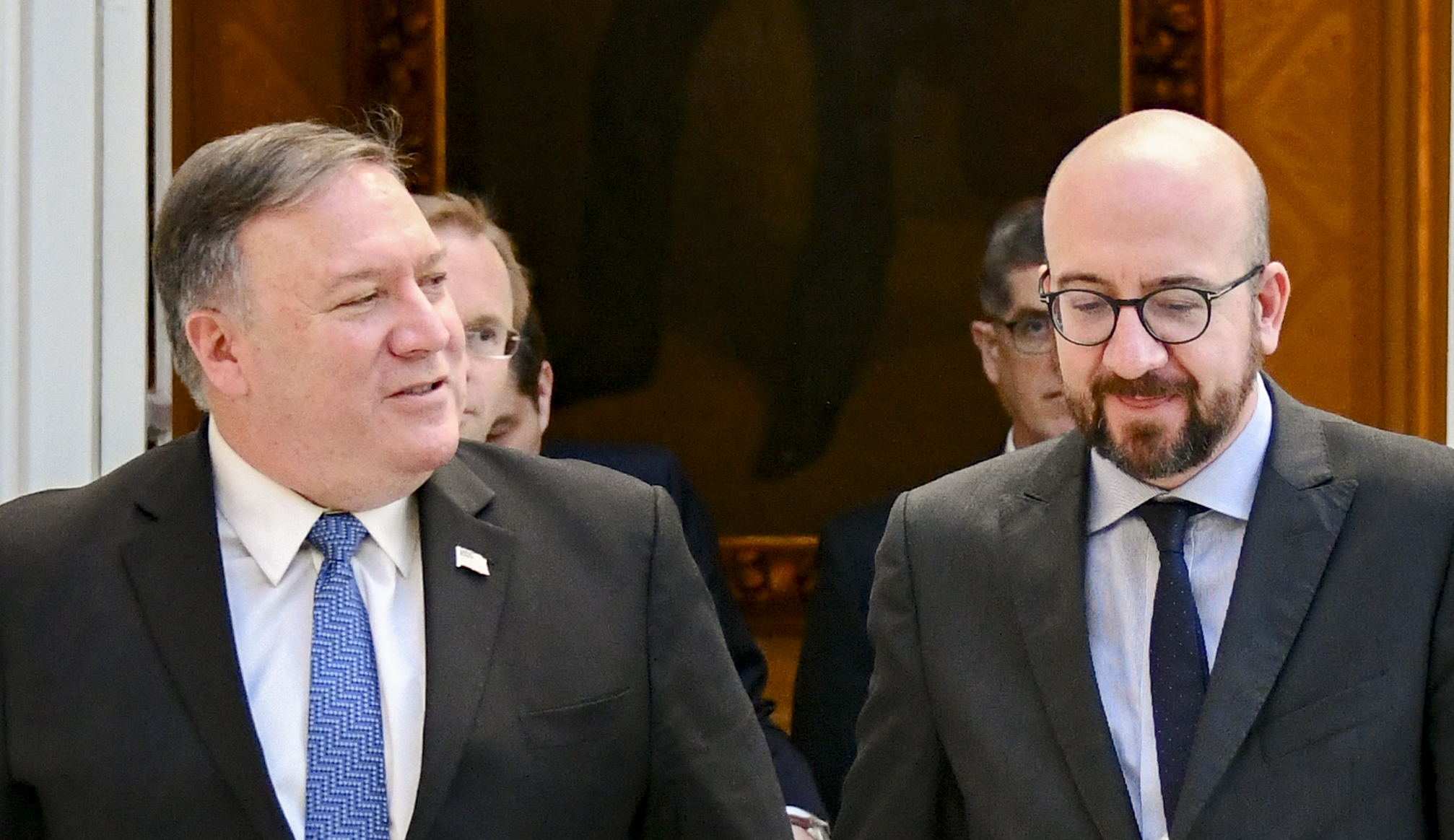 Secretary of State Michael R. Pompeo walks with Belgian Prime Minister Charles Michel following their bilateral meeting, on the margins of the semi-annual meeting of NATO Foreign Ministers in Brussels, Belgium, on December 4, 2018. [State Department photo/ Public Domain]